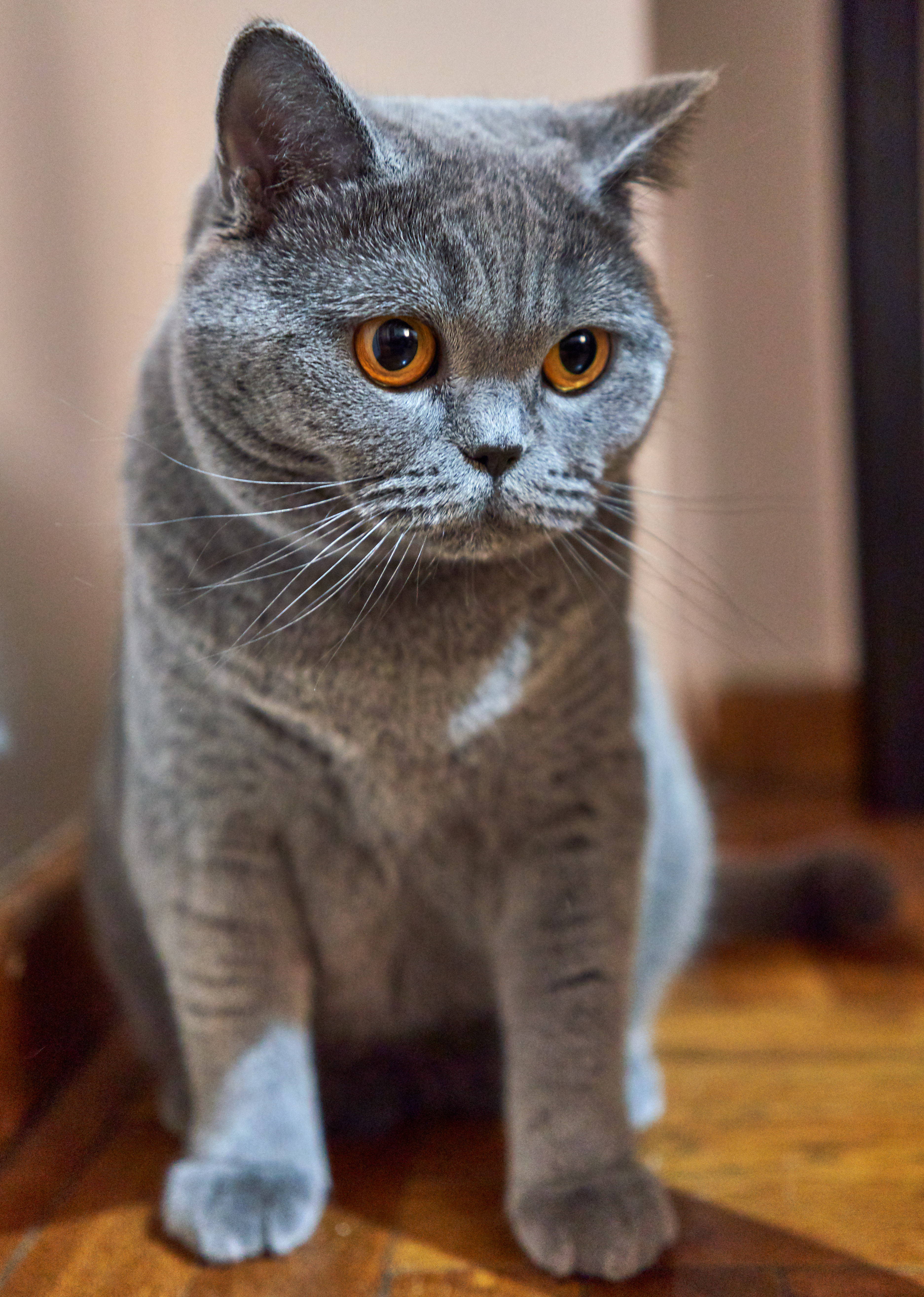 Feronia. British Shorthair. Female. 18 months old. Athens, Greece.